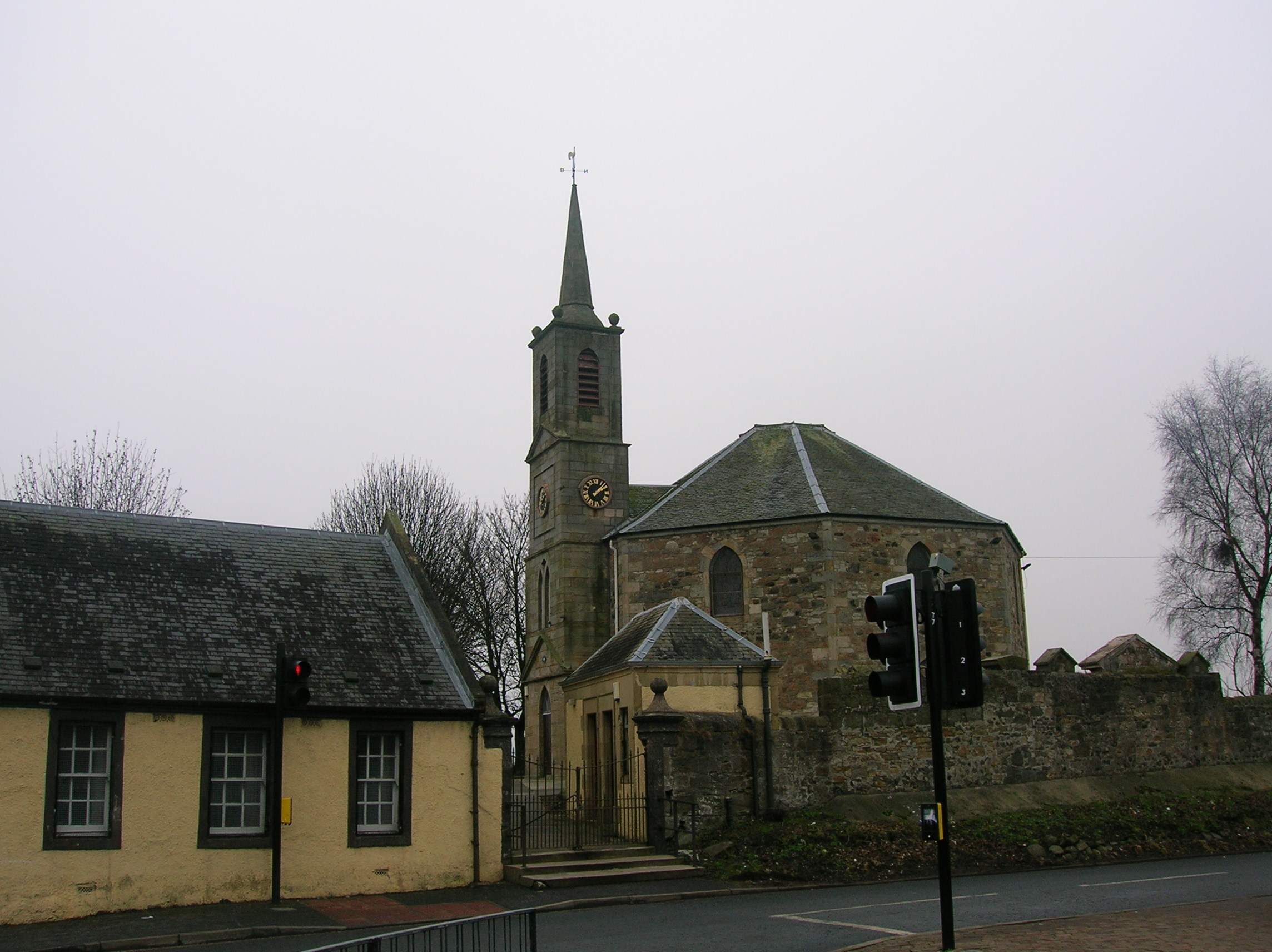 The parish kirk at Dreghorn, North Ayrshire, Scotland